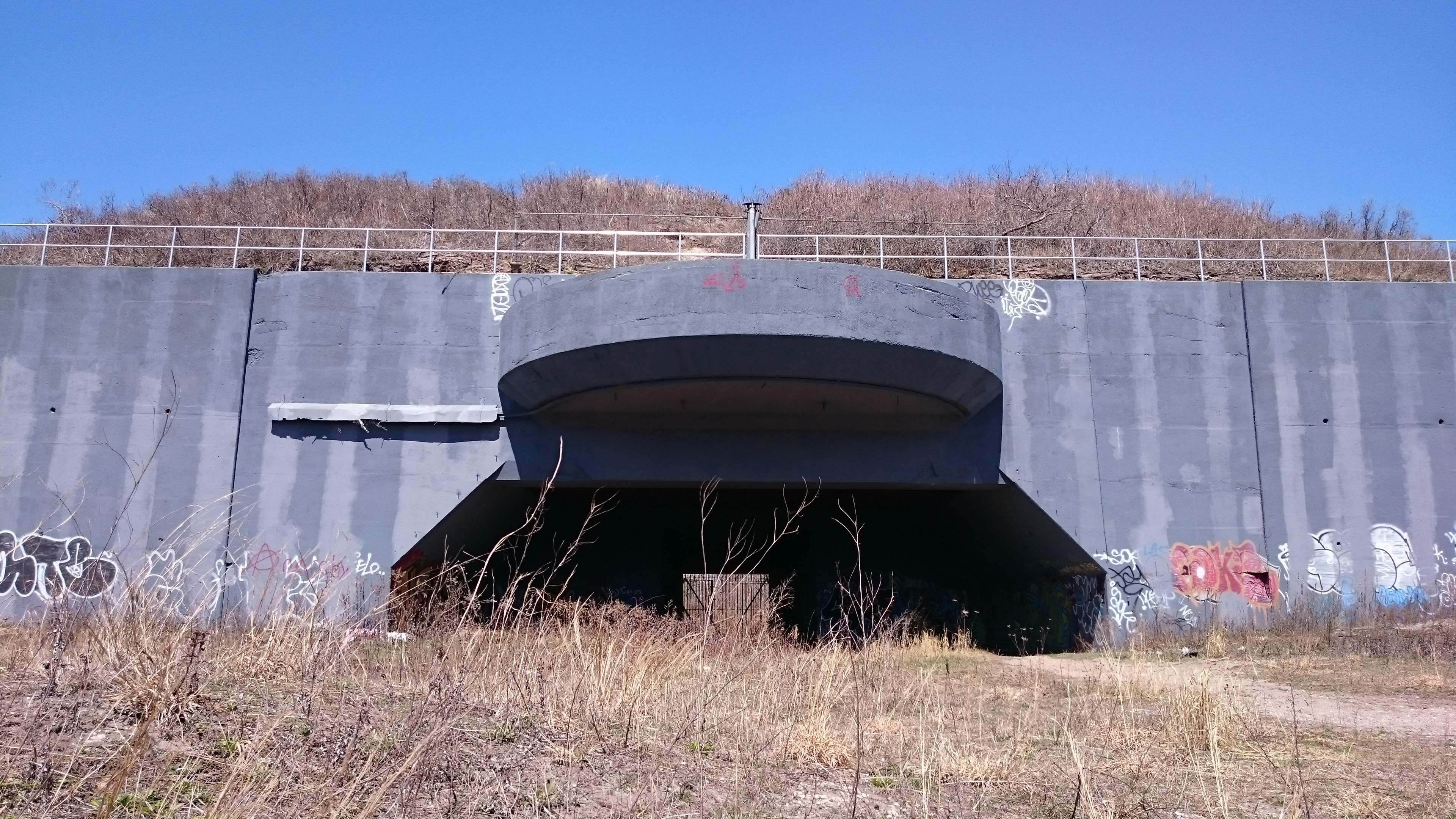 Further than Rockaway: Fort Tilden